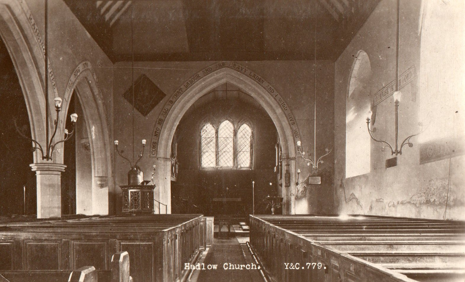 Postcard showing the interior of St. Mary's Church, Hadlow. Card by Young & Cooper, Maidstone. Postally used 29 August 1921.